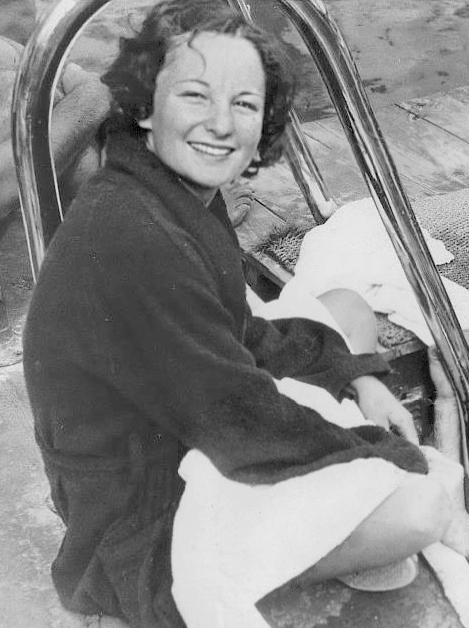 1938 International HOF Swimmer Katherine Rawls Press Photo